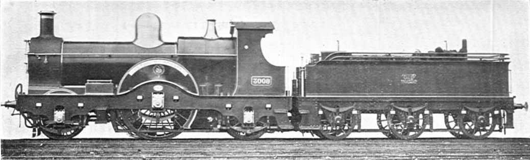 Fig. 1 Dean's "Singles" for the Great Western Railway As originally built